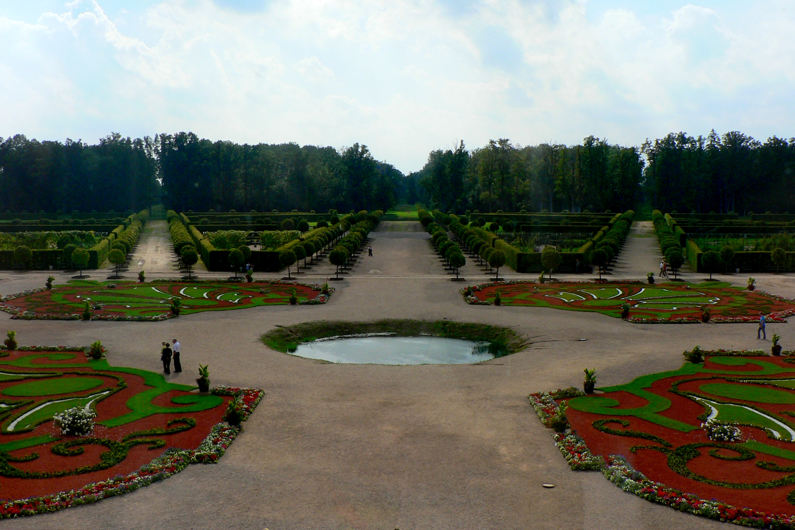 Rundāle palace, Latvia.